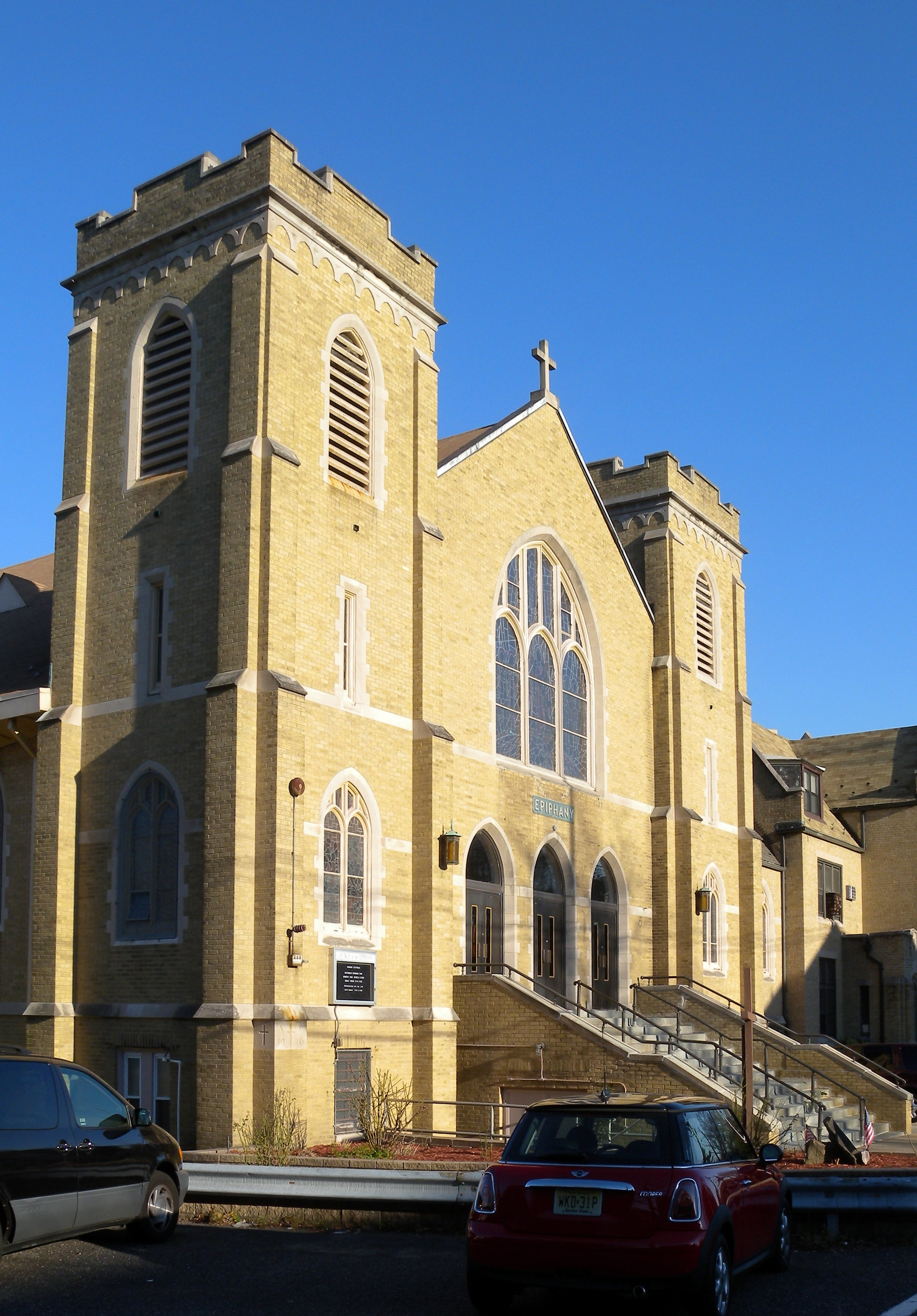 Looking east across Abbott Boulevard at Epiphany Catholic Church in northern Cliffside Park on a sunny midday.